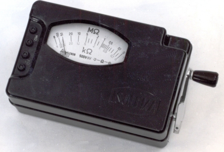 Isoleka insulation tester